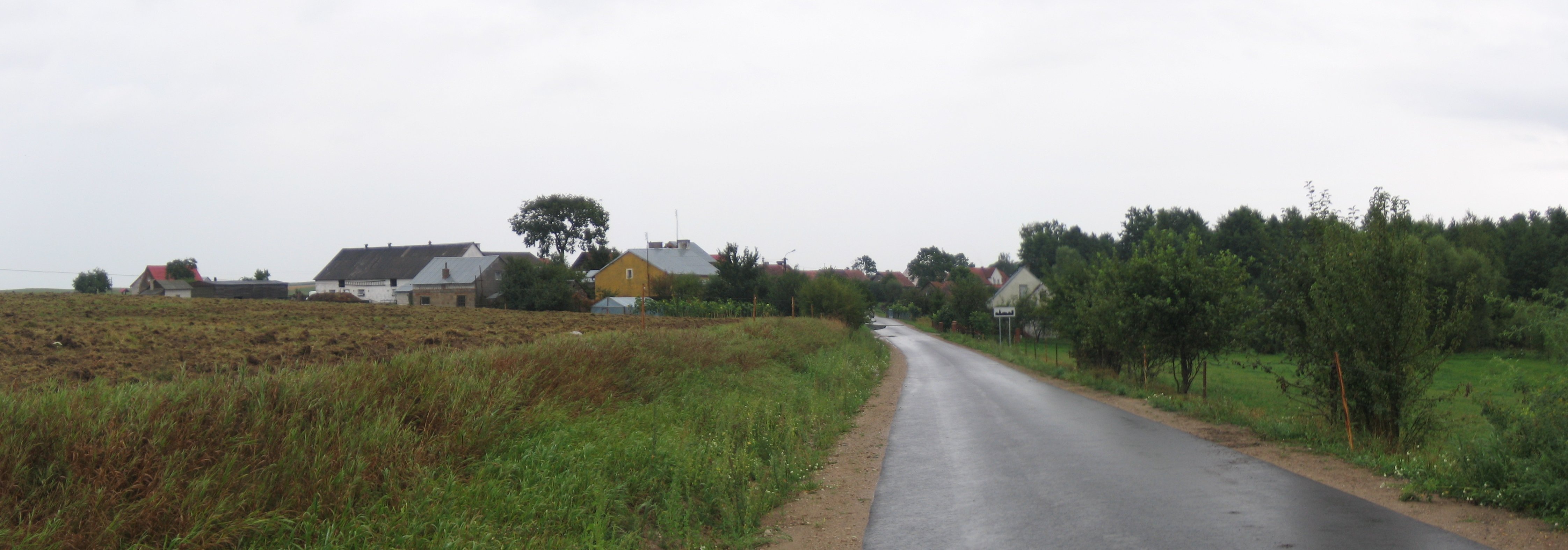 Panoramic photo p of village Stożne in Poland.